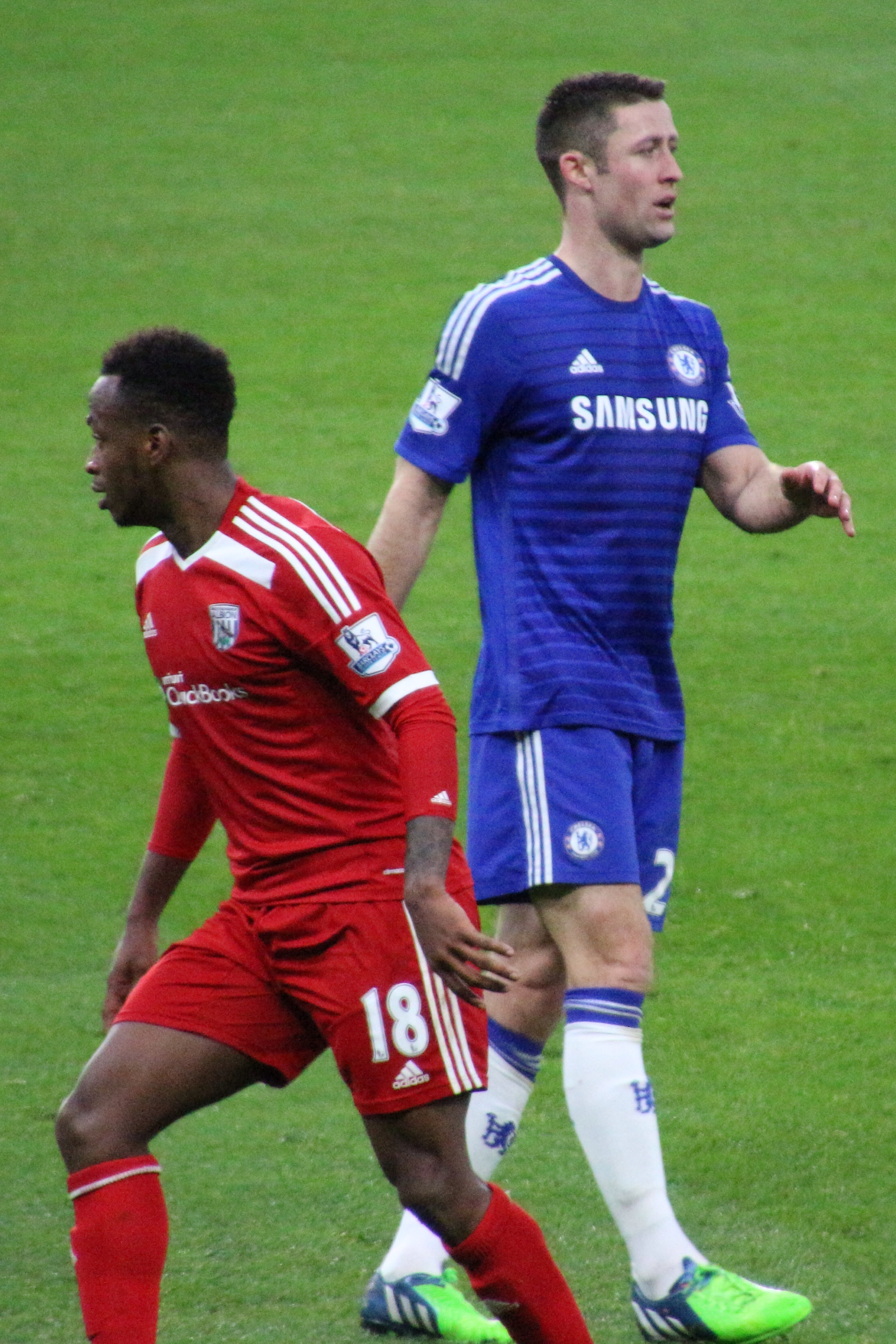 Chelsea 2 West Brom 0 The Blues go marching on.